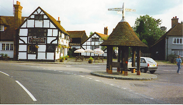 Grantley Arms, Wonersh, Surrey, England